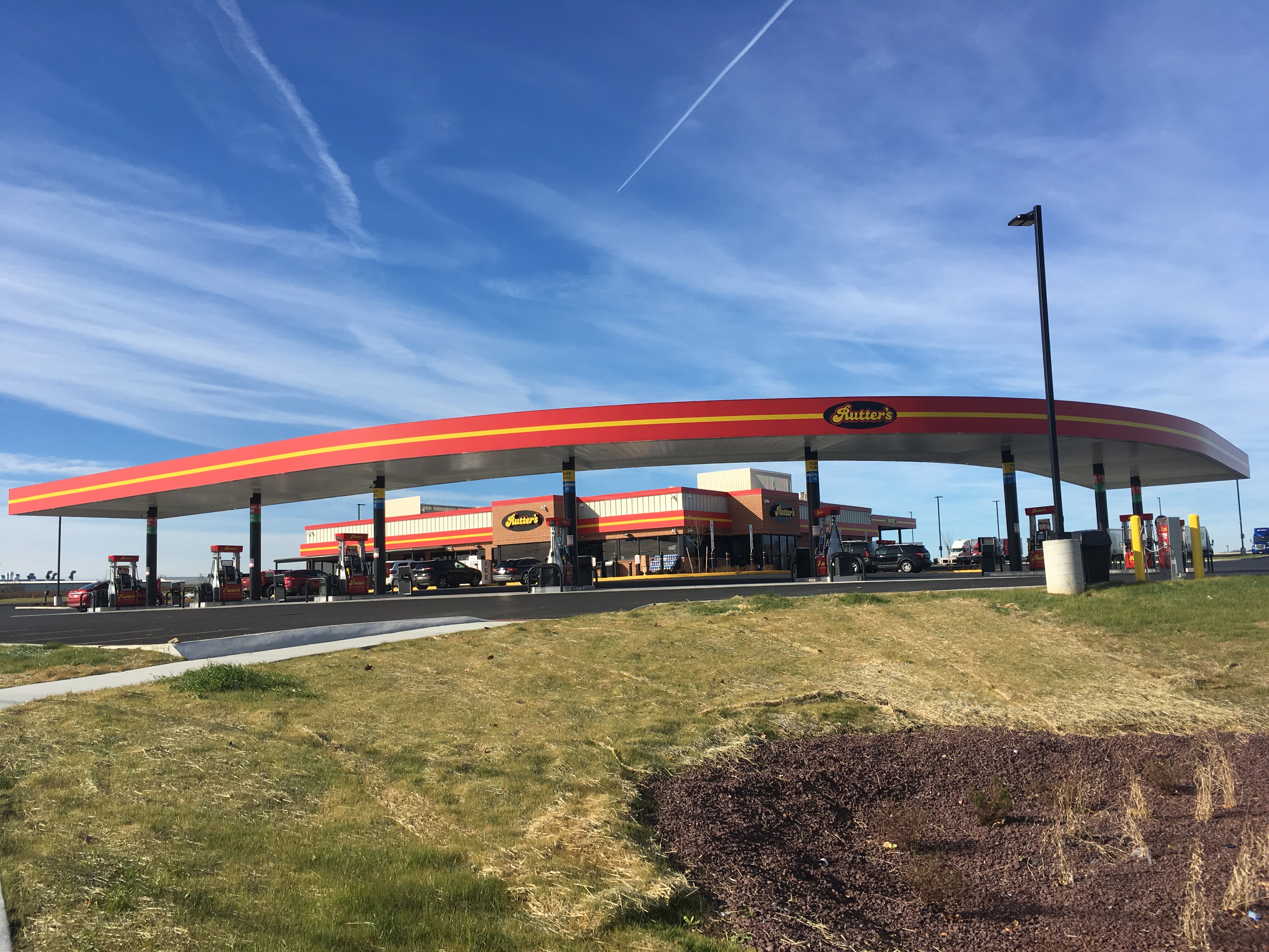 Rutter’s convenience store and gas station located along Pennsylvania Route 61 (Pottsville Pike) in Leesport, Pennsylvania